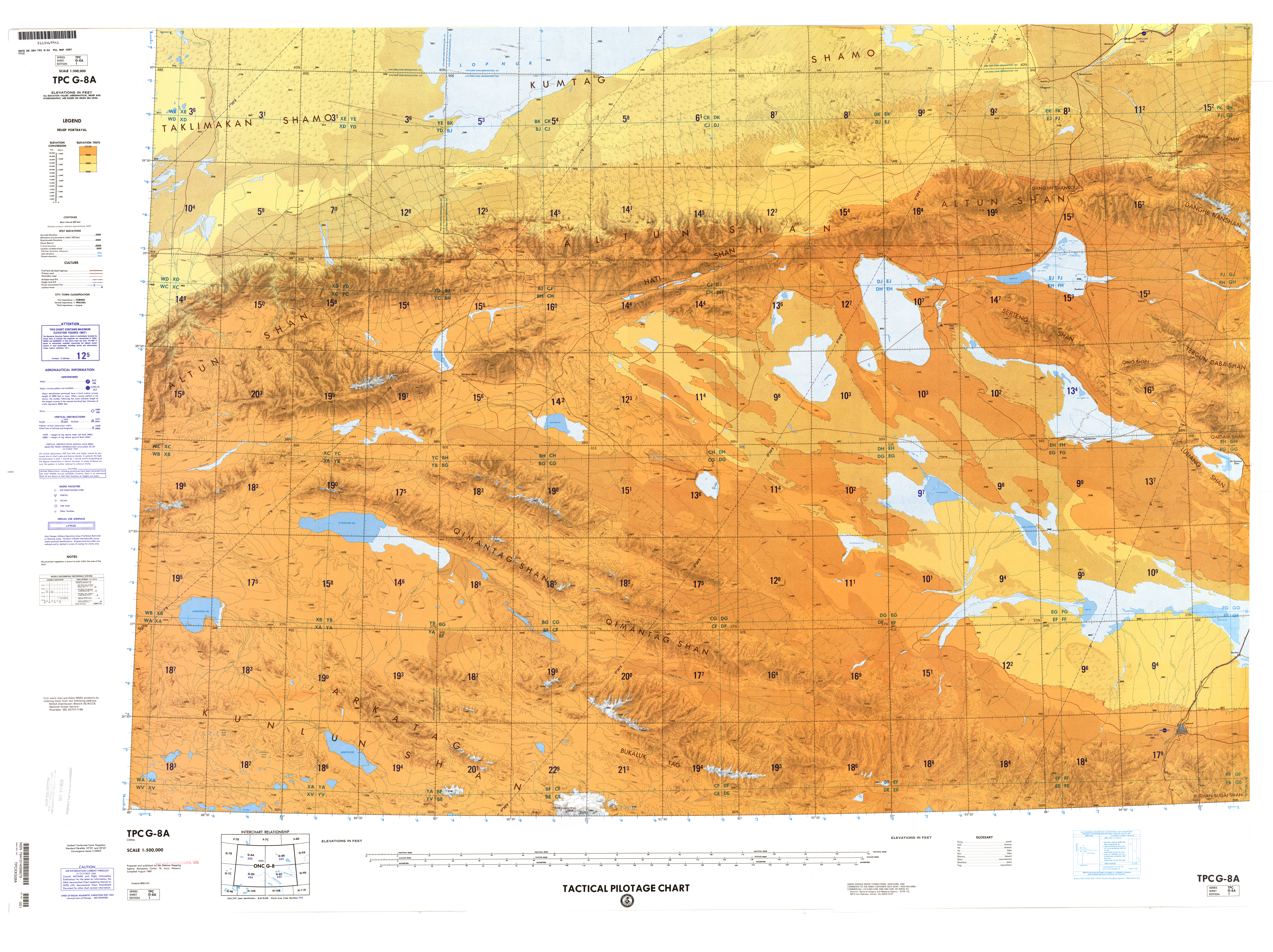 Tactical Pilotage Chart Series - World 1:500,000 Scale